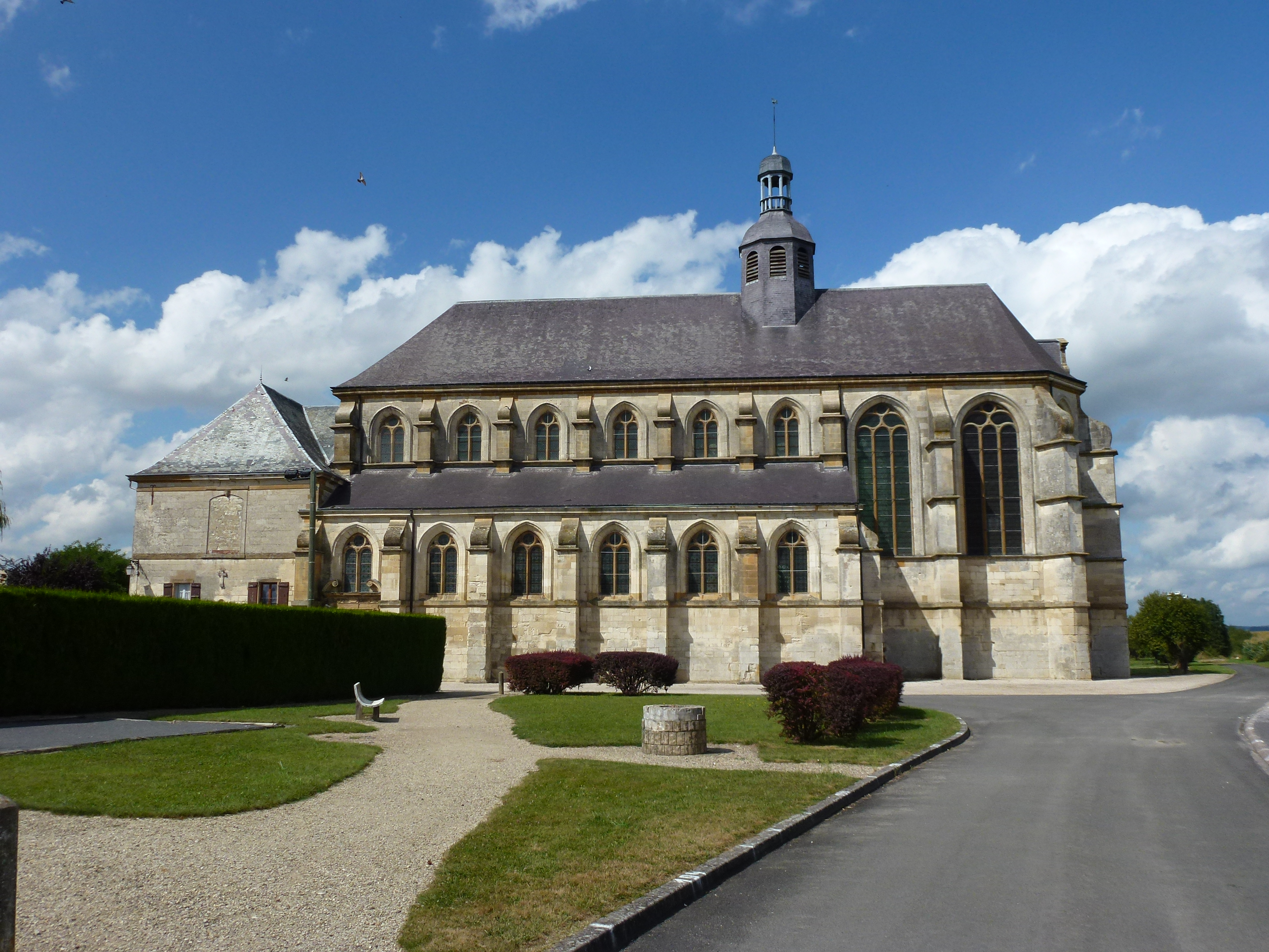 Novy-Chevrières (Ardennes) Église Sainte-Catherine